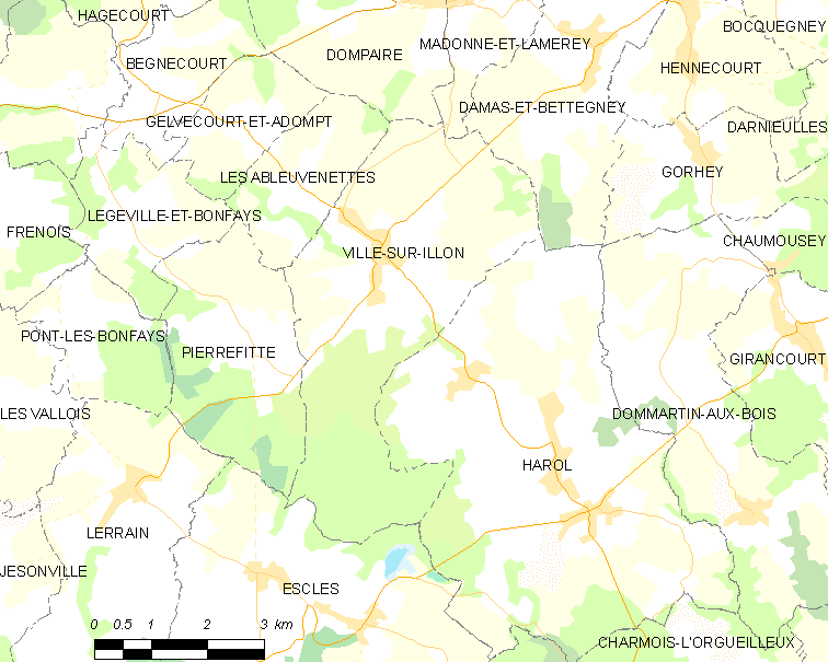 Map of French municipality Ville-sur-Illon